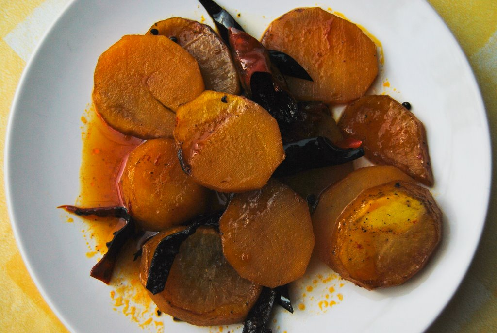 Patanes à la santangiolèse